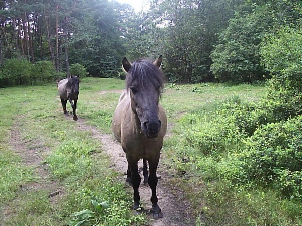 A konik horse in the Stobnica Research Station of the Farm Academy of Poznan, Poland